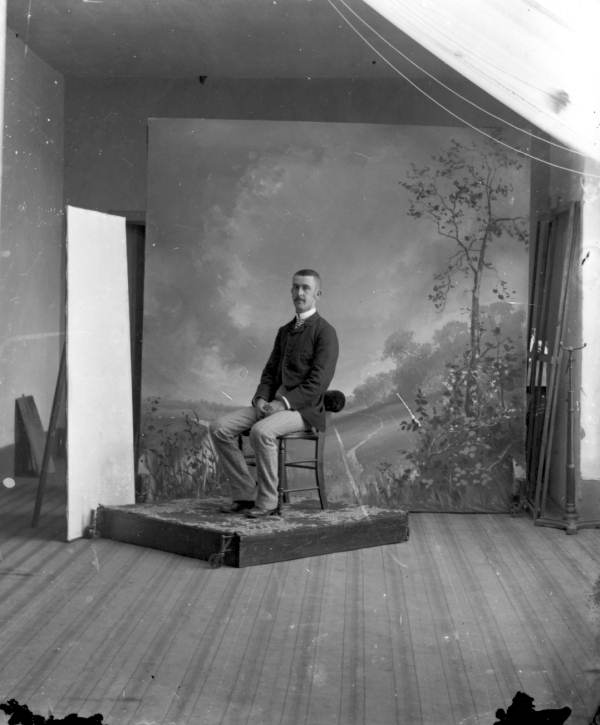 Local call number: Ha00053 Personal Author: Harper, Alvan S., 1847-1911. Title: [Laurie A. Perkins posed in Harper's studio] Date/place captured: Photographed in Tallahassee, Florida between 1885 and 1910. Physical descrip: 1 glass photonegative : b&w ; 5 x 7 in. Series Title: (Alvan S. Harper collection.) Repository: 500 S. Bronough St., Tallahassee, FL 32399-0250 USA. Contact: 850-245-6700. Persistent URL